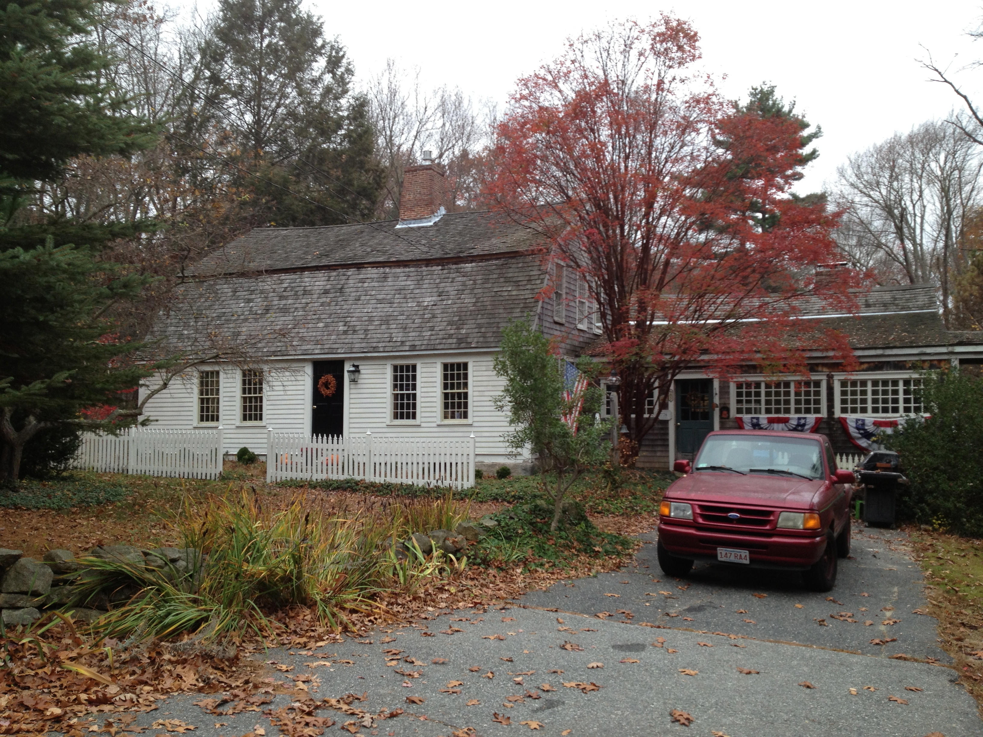 President George Washington slept here on his post-inaugural tour of New England, November 8, 1789